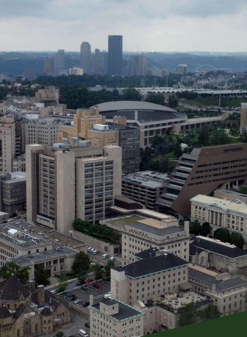 University of Pittsburgh, main campus in Oakland